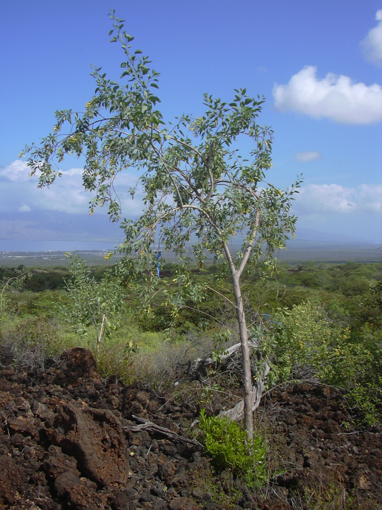 Nicotiana glauca (habit). Location: Maui, Puu o Kali